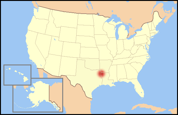 Map of the United States highlighting the Arklatex, in the suggested style by wikiproject maps, using the existing template of wikiproject US regions.